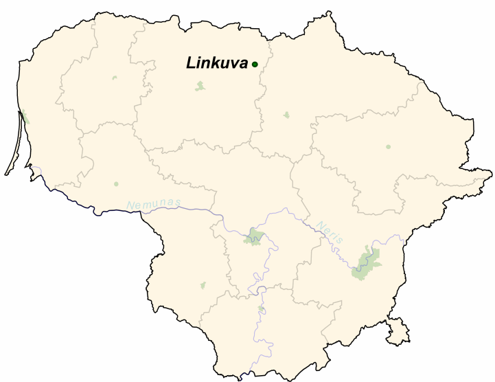 Linkuva on the map of Lithuania